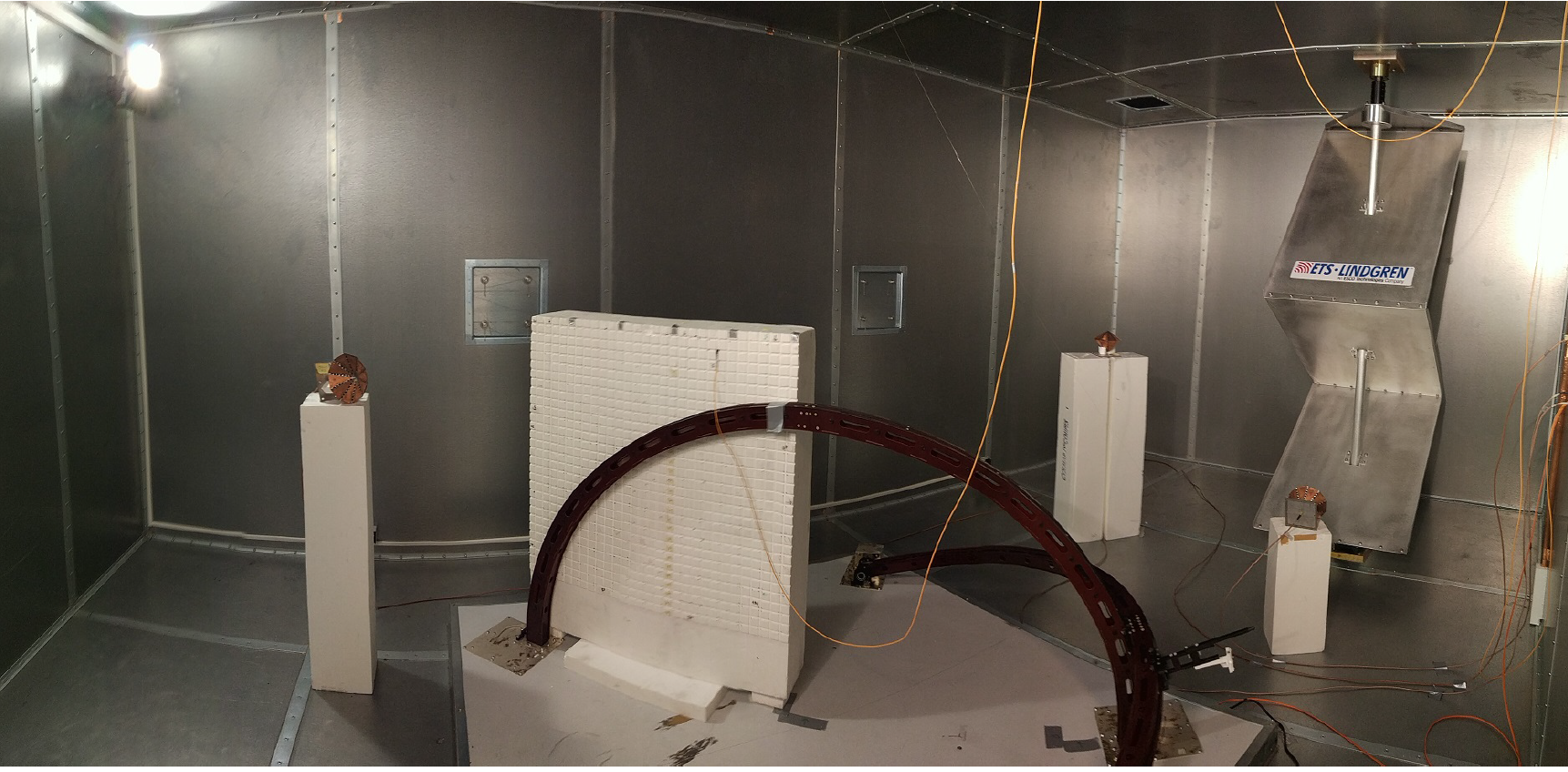 Reverberation chamber, Supélec, France